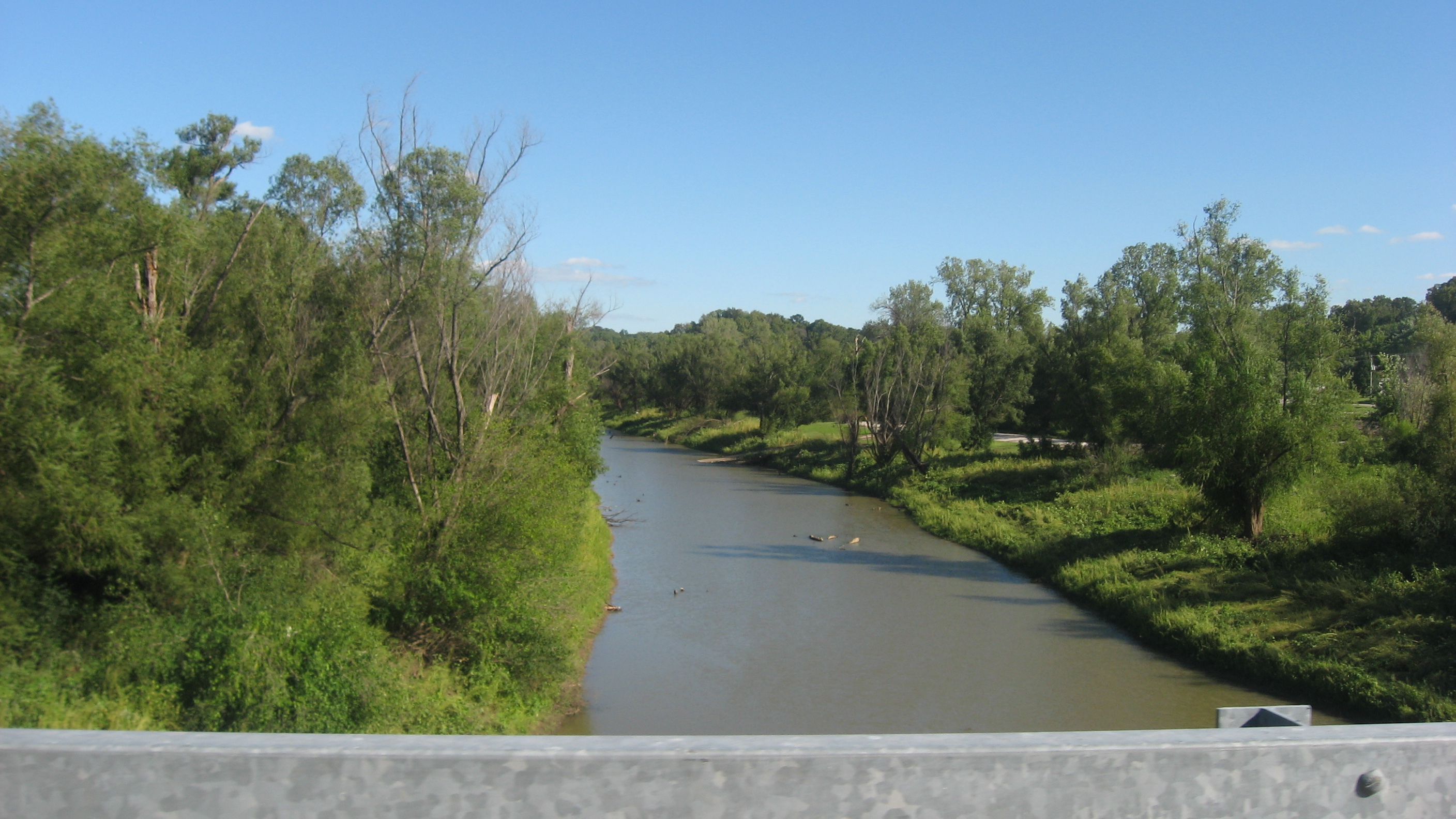 Looking eastward (downstream) along the old riverbed at the southern end of the causeway between Kaskaskia, Illinois and St. Mary, Missouri in the United States. Until a catastrophic shift in 1881, this small stream was the Mississippi River.